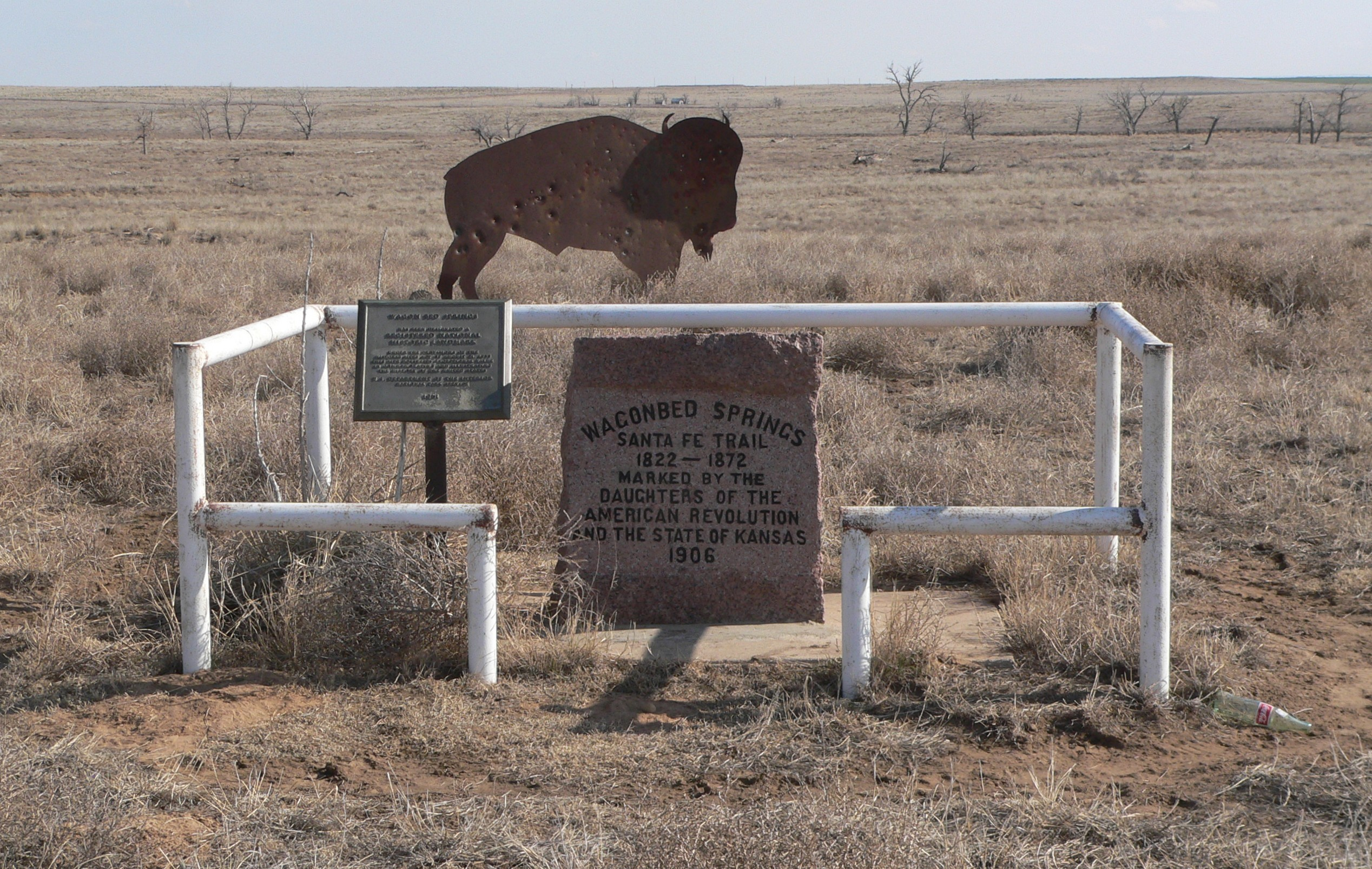 Markers at Wagon Bed Spring site, on north bank of Cimarron River south of Ulysses, Kansas.